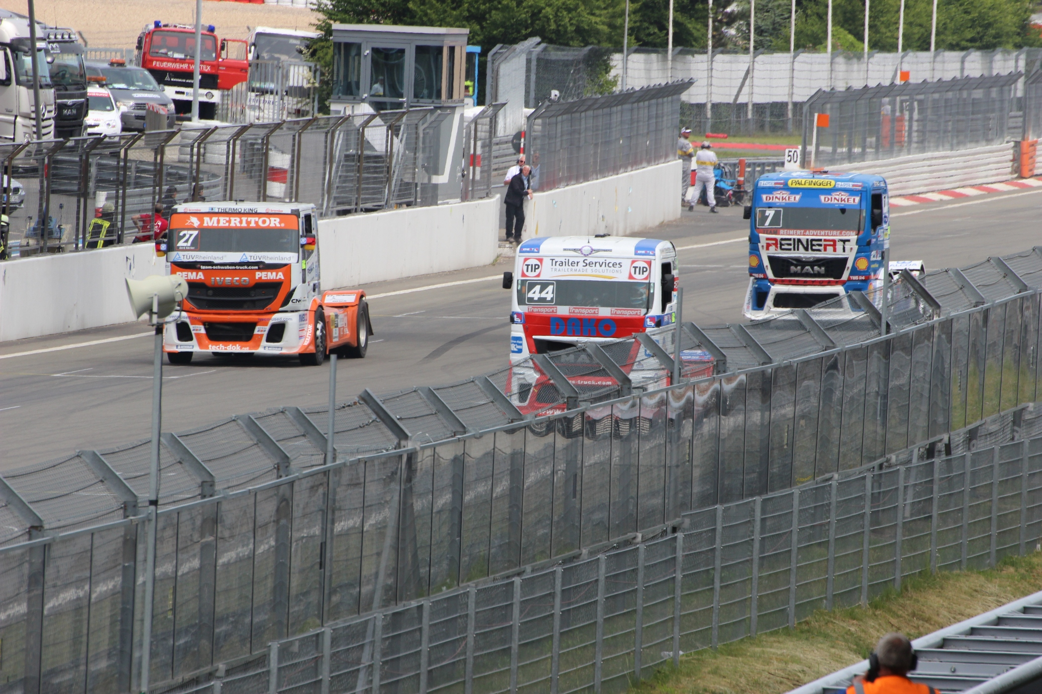 European Truck Racing Championship 2015 (Nürburgring)